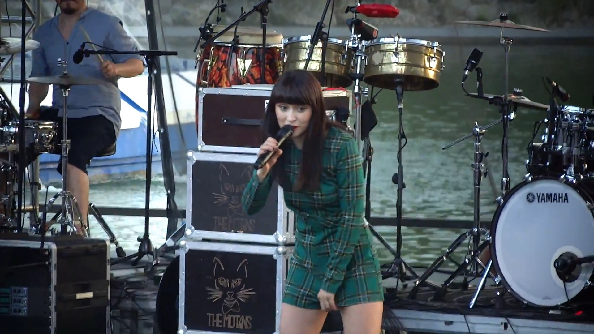 Irina Rimes performing in Bucharest, Romania (1st of may, 2018).